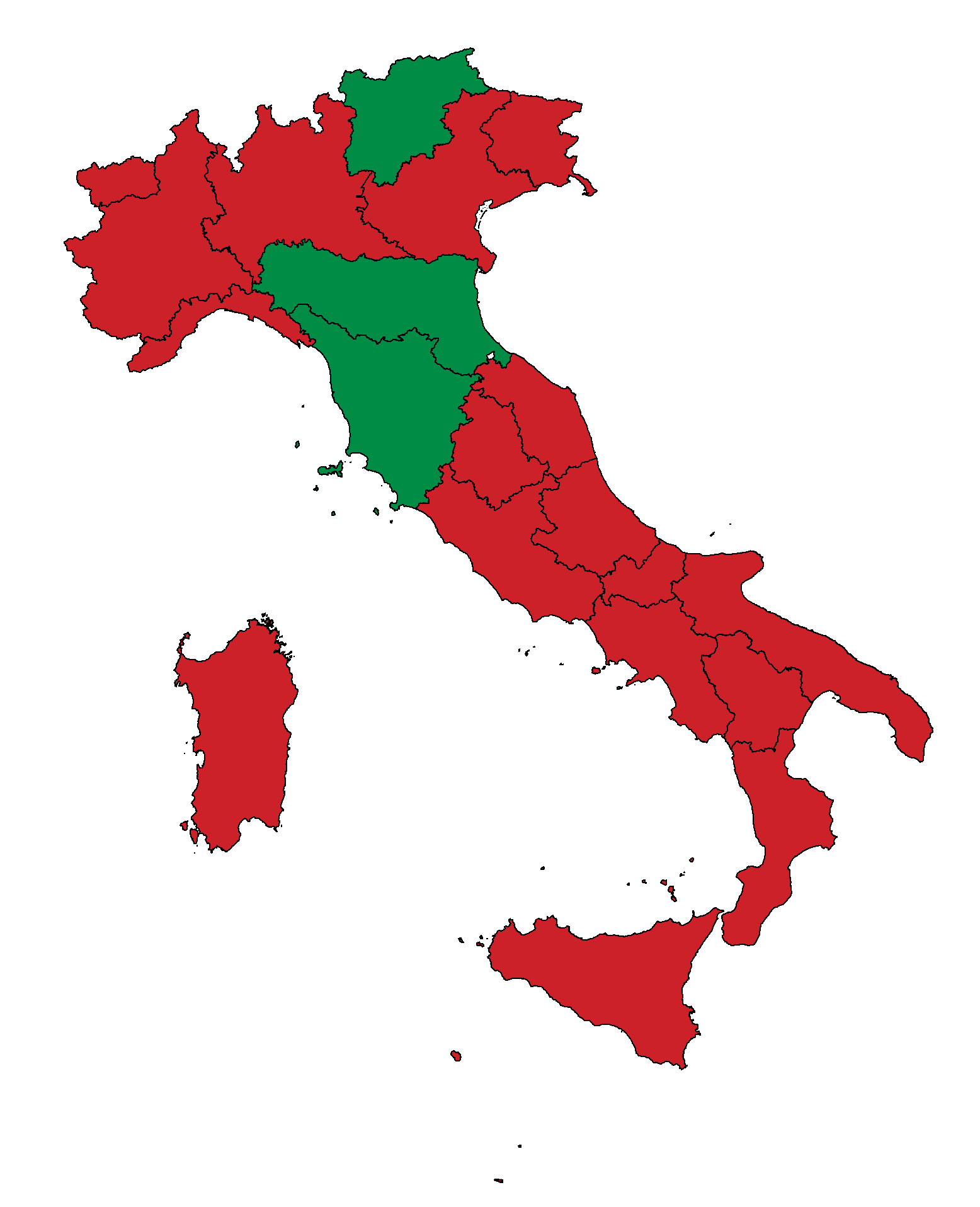 Map of the 20 regions of the Italian Republic, painted according to the results of the 2016 constitutional referendum. Green means YES, red means NO. YES NO